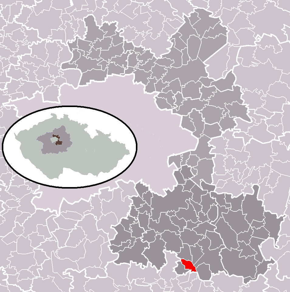 Location of Senohraby municipality within Prague-East District and administrative area of Říčany as a Municipality with Extended Competence.